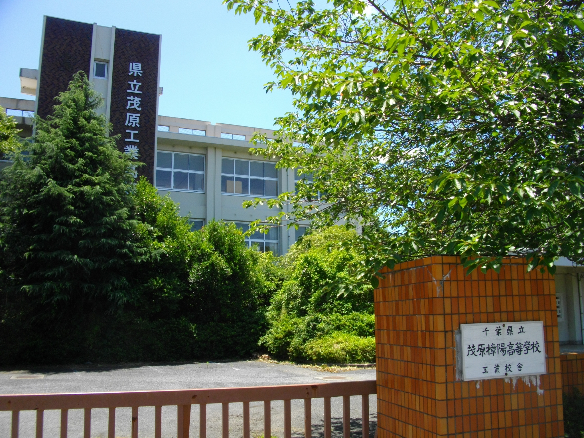 Mobara Shoyo High School Technical Campus